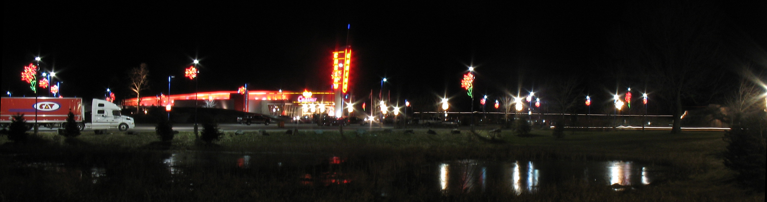 The Thousand Islands Charity Casino after dark.